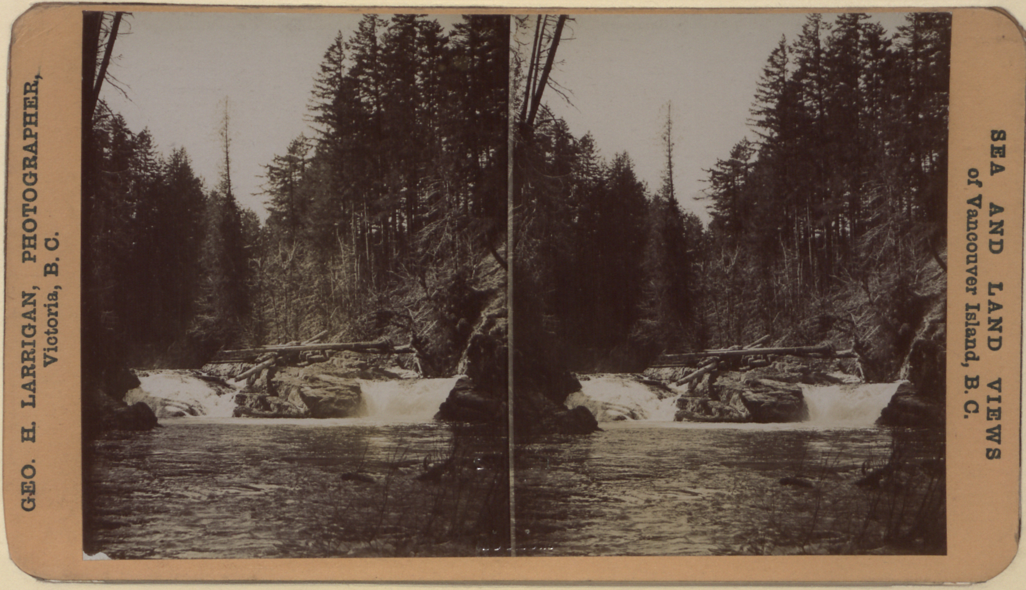 Koksilah River Falls, Vancouver Island, North Fall.